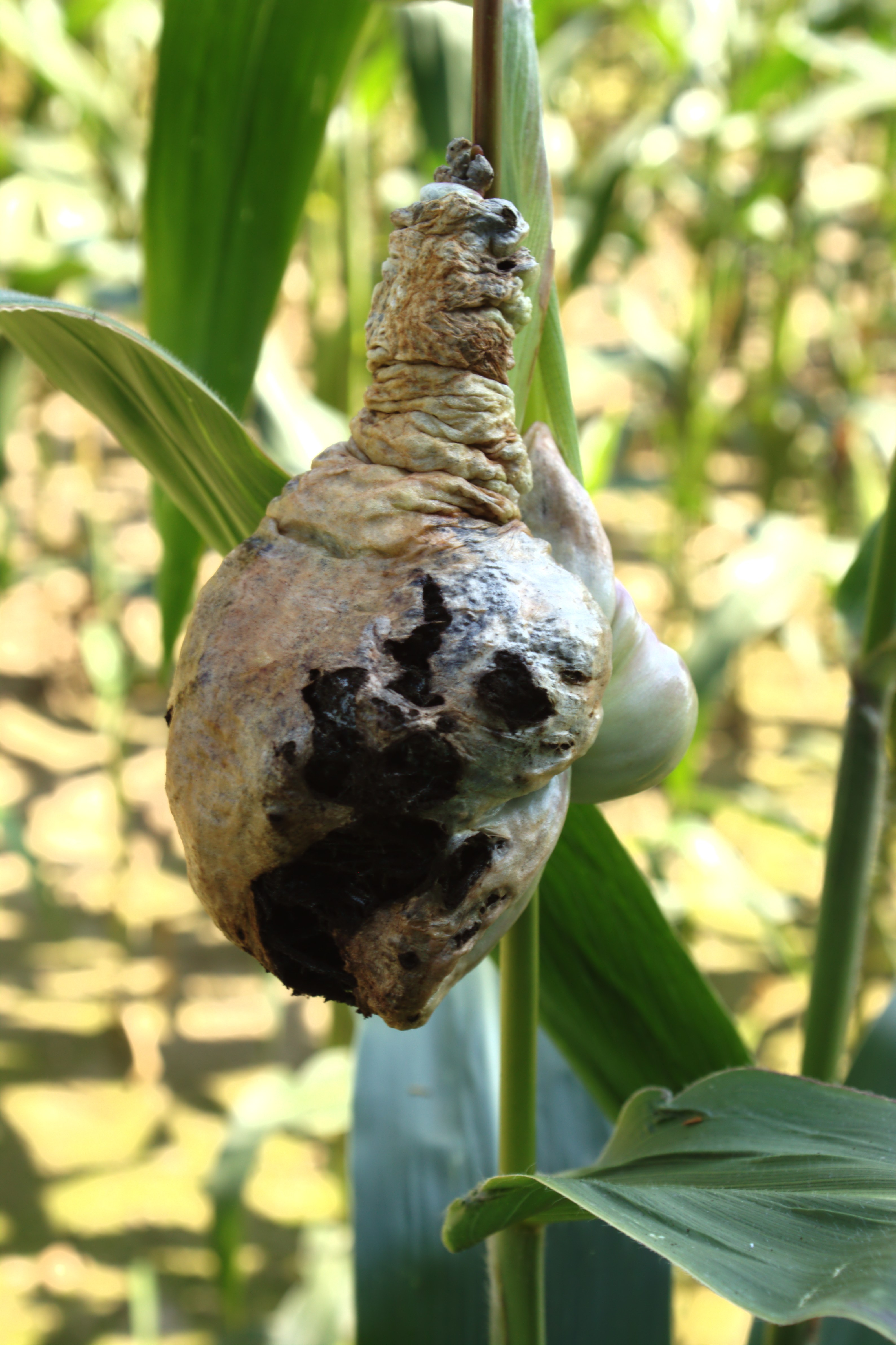 A corn parasite on a plant near Úvaly, Prague-East District, CZ